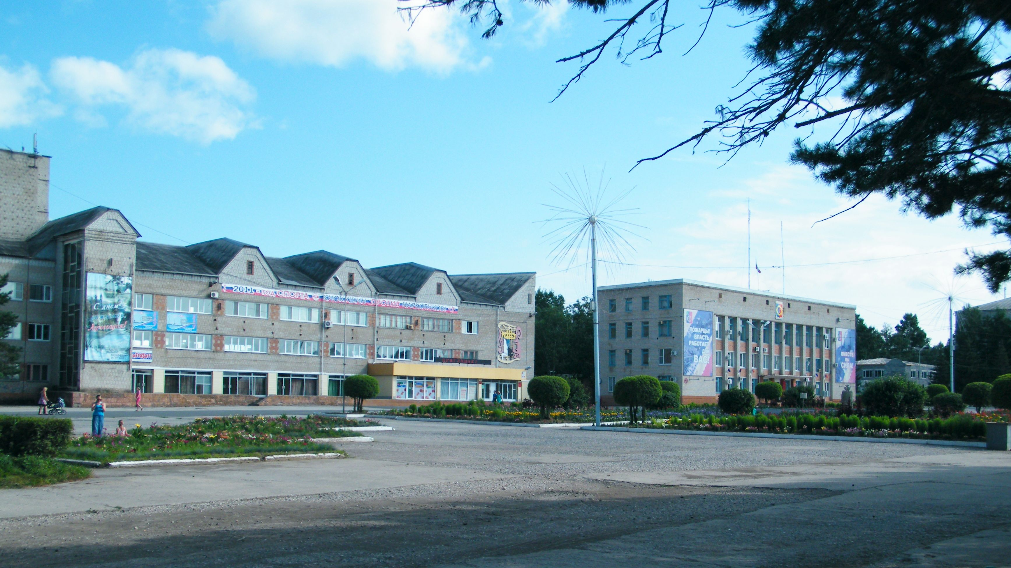 Luchegorsk